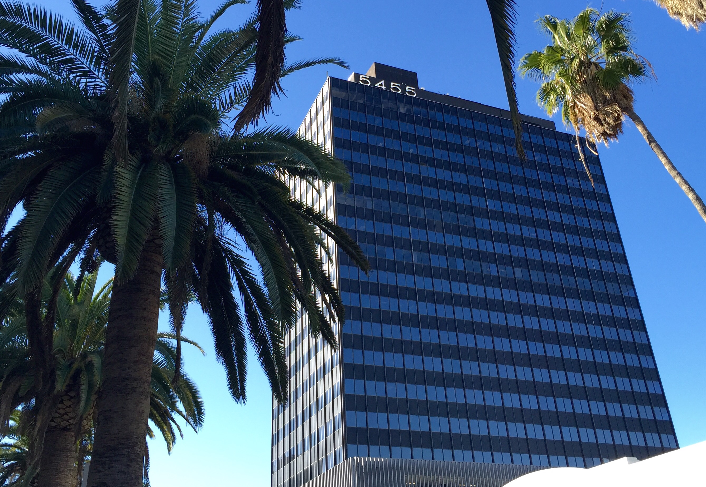 A 2016 photo of the office building at 5455 Wilshire Blvd in Los Angeles.